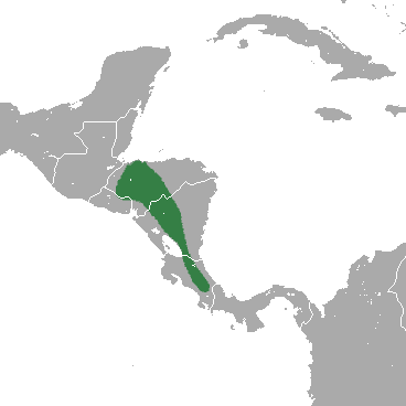 Central American Least Shrew (Cryptotis orophila) range